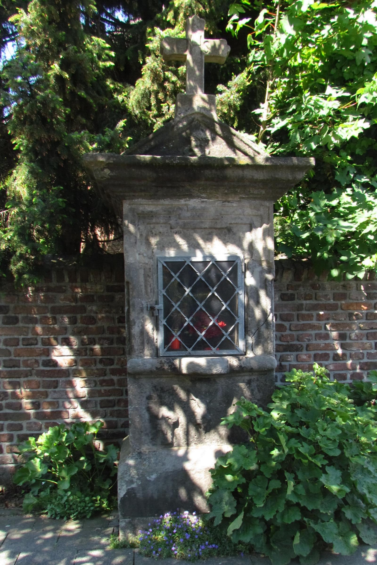 This is a photograph of an architectural monument.It is on the list of cultural monuments of Korschenbroich